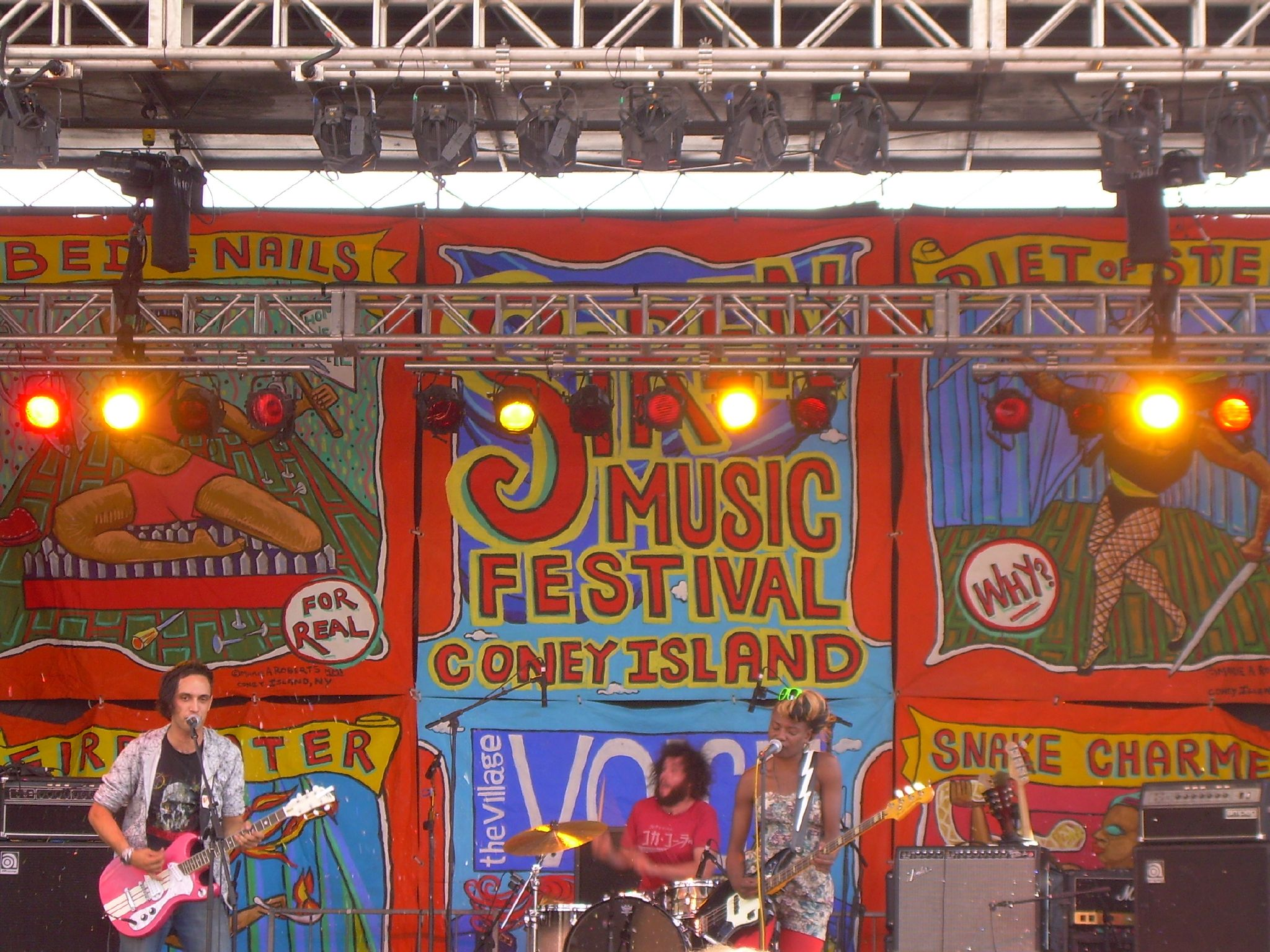 Noisettes at Siren music festival" of Noisettes871067526_214e7db29c